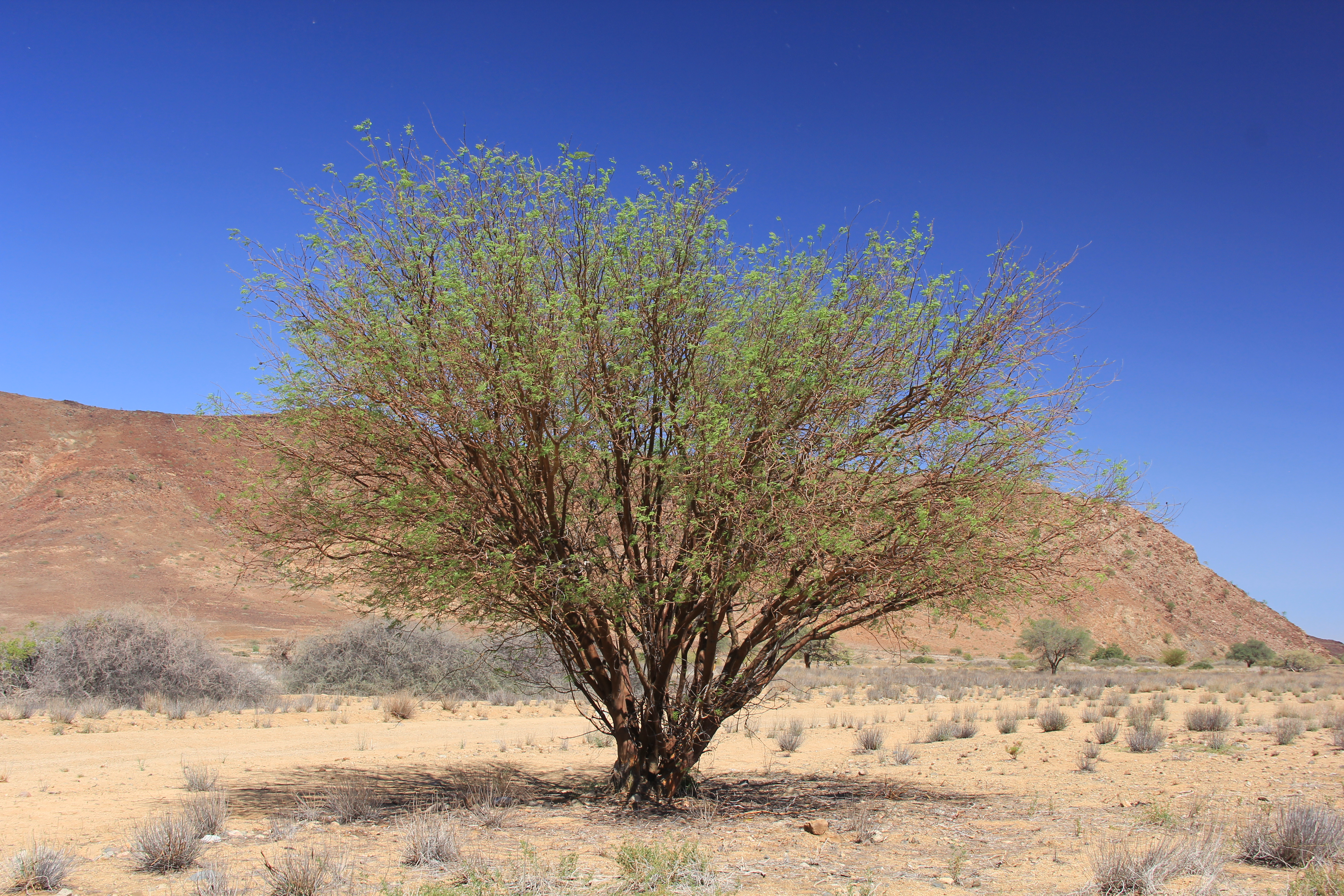 Brandberg Acacia (Acacia montis-usti), Amis gorge, Brandberg, Namibia